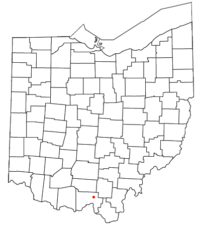 Locator map of the unincorporated community of Mule Town in Scioto County, Ohio, United States